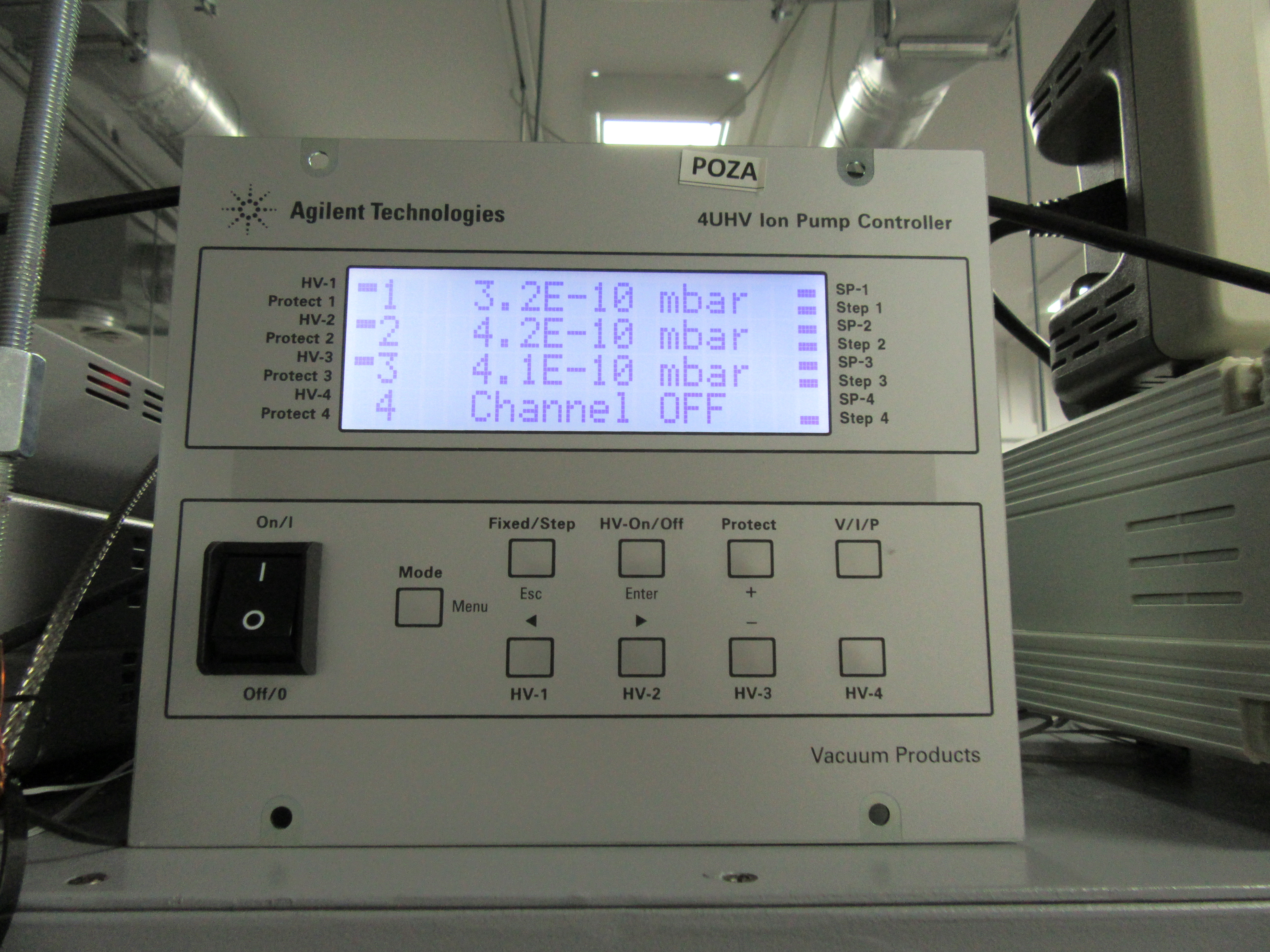 National Laboratory of Atomic, Molecular and Optical Physics in Nicolaus Copernicus University in Toruń (Poland). Control panel of ionic pump.